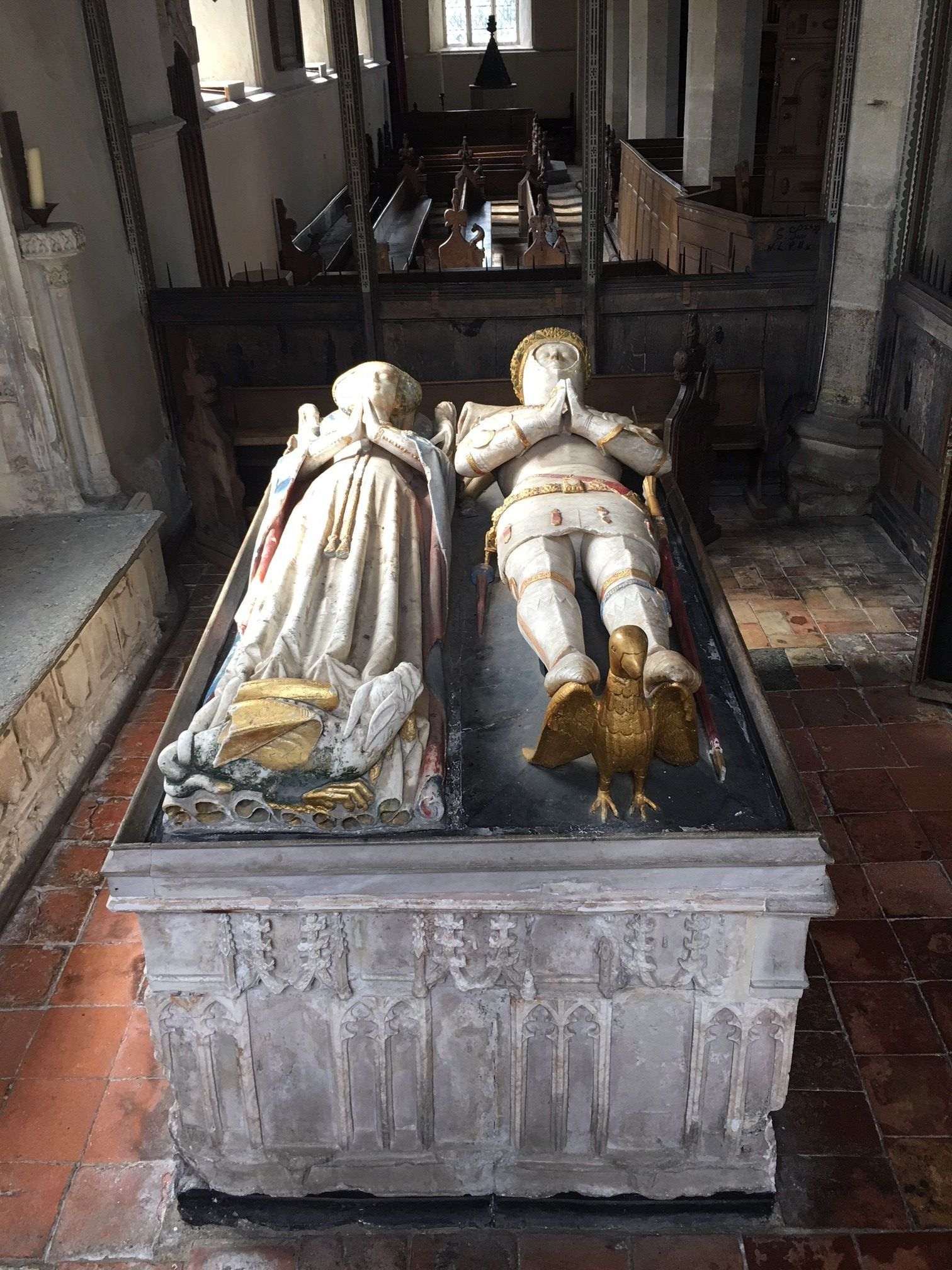 The tomb of William Phelip, 6th Baron Bardolf, and Lady Joan Bardolf in St Mary's Church, Dennington, Suffolk